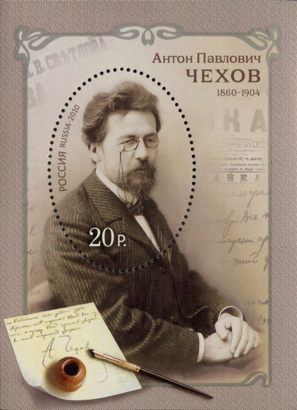 Stamp of the Russia, Anton Chekhov, 2010.